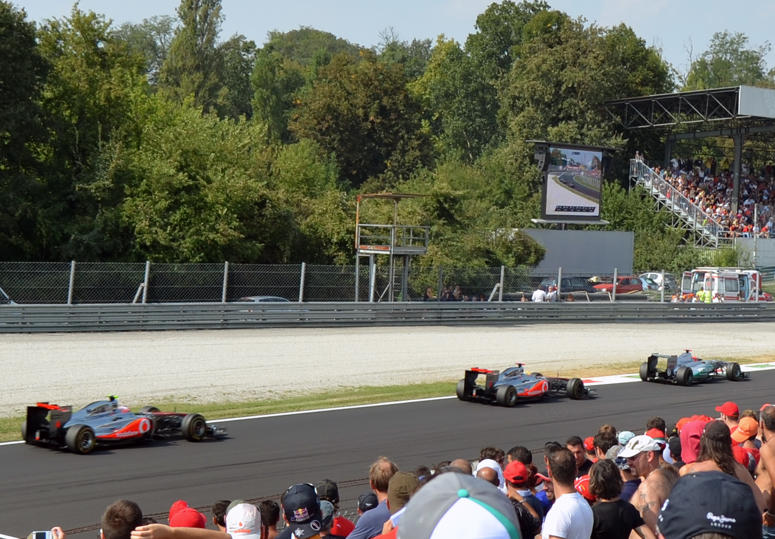 Michael Schumacher in the Mercedes MGP W02 leads Lewis Hamilton and Jenson Button in the McLaren-Mercedes MP4-26 onto the start/finish straight during the 2011 Italian Grand Prix at Monza.